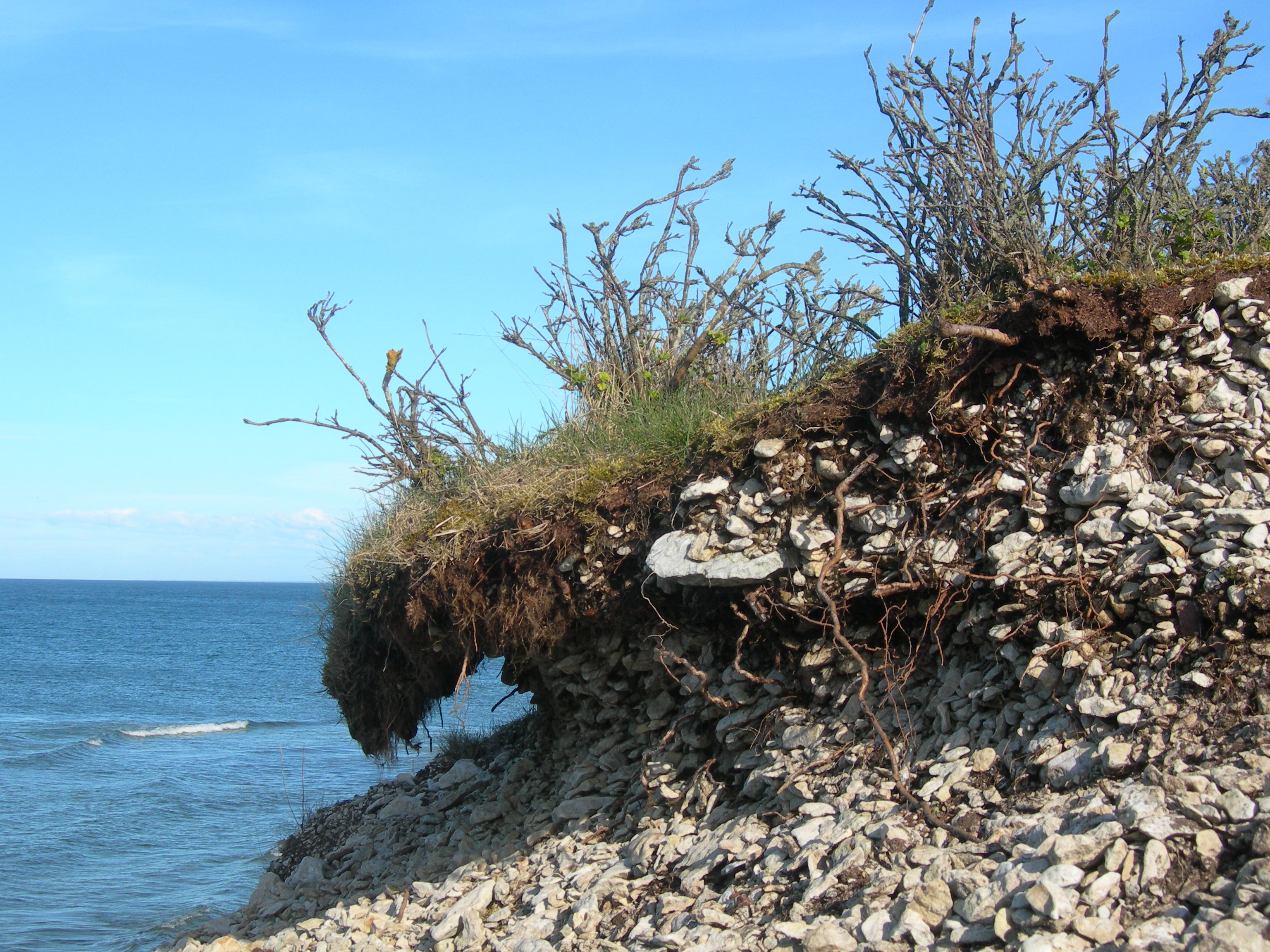 Coastal erosion of the shingles layer in the NW part of Osmussaar island, Estonia